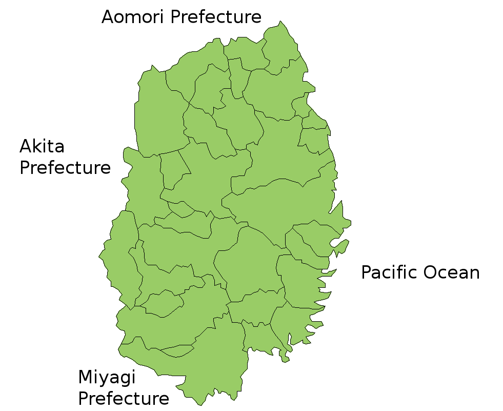 Map of Iwate Prefecture, Japan. Thanks to Aoki Shigenobu and [1]. Colors from Image:TokyoMapCurrent.png by User:Fg2.